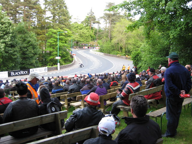 Watching the TT